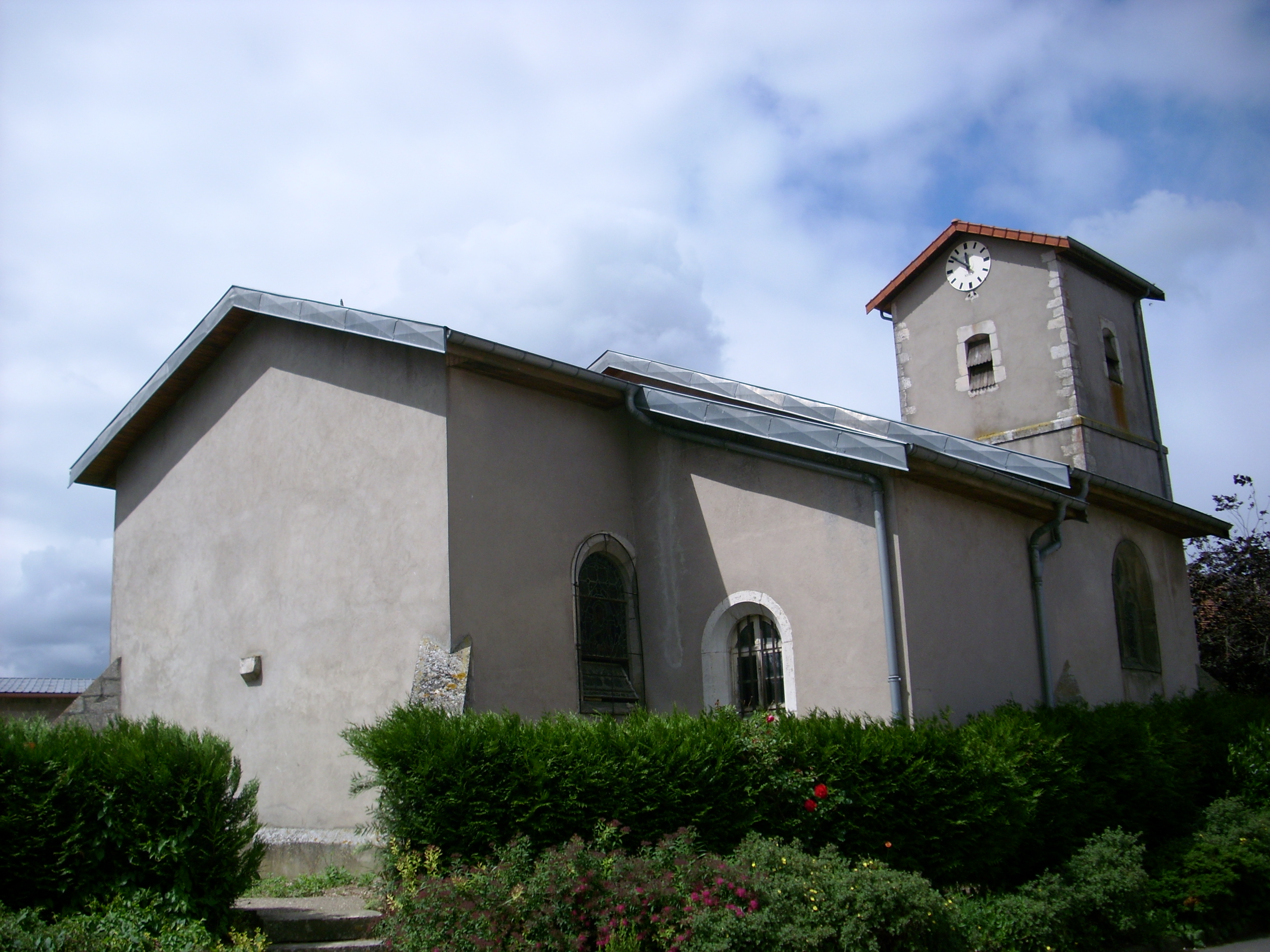 The beautiful church from gye